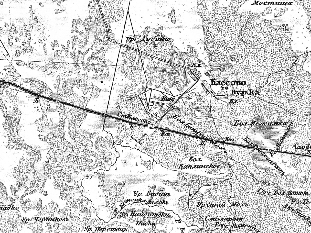 Map Klesov 1913.